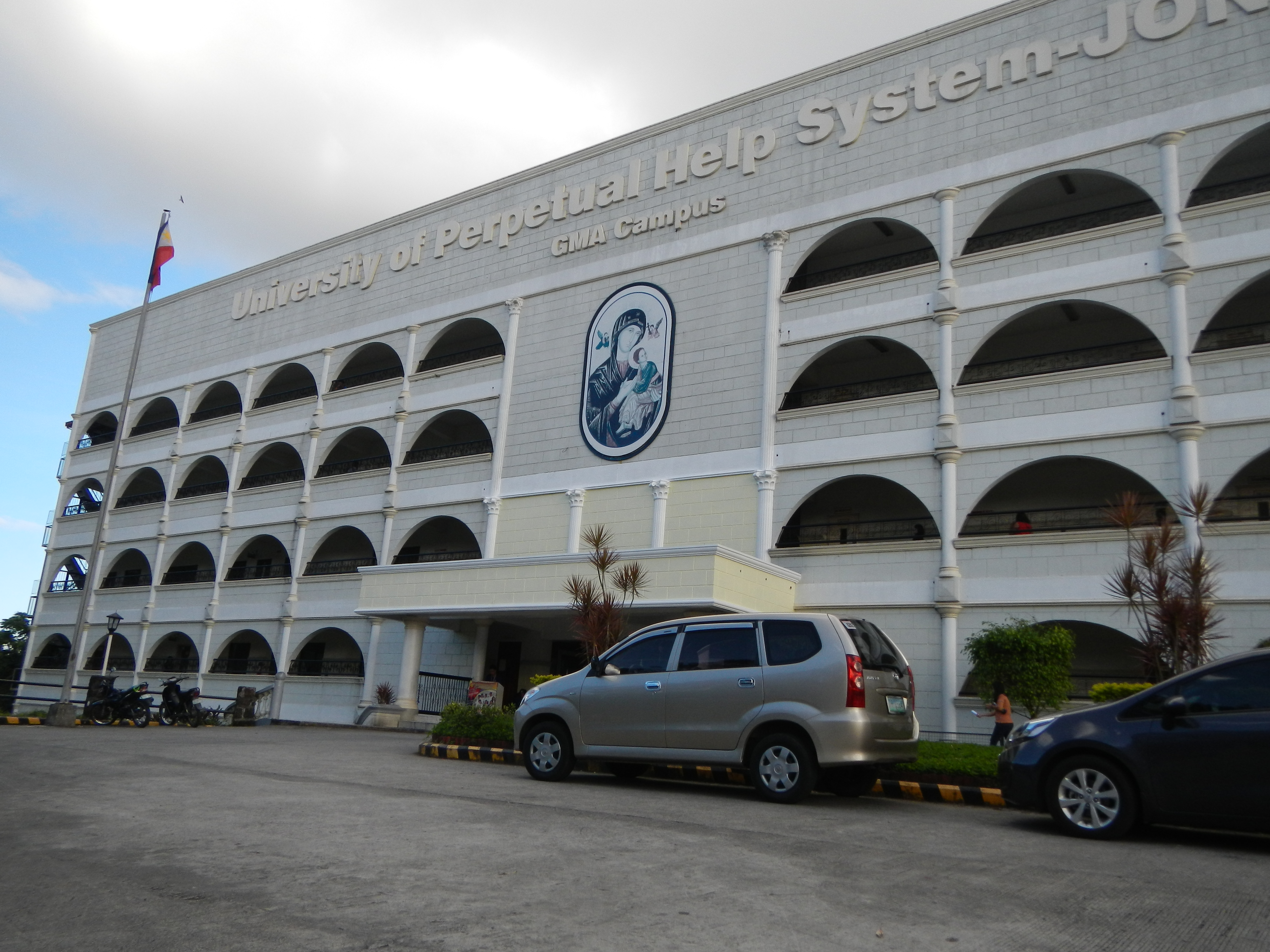 Upload Wizard photos -- (General description, 3-dimension angle by angle photography of this town, church & landmarks) -- General Mariano Alvarez, Cavite[1] ( an urban municipality in the province of Cavite, Philippines; 2010 census, it has a population of 138,540 people in an area of just 11.40 square kilometers, named after General Mariano Álvarez[2], a native of the town of Noveleta, Cavite; with 27 barangays, with its University of Perpetual Help System JONELTA - GMA Campus [3]) - GMA area, that is, Poblacion I and 2, Town Proper, downtown, centro, along the GMA National Road Website, General Mariano Alvarez Town Hall, Century Savings Bank building, GMA Public Market.